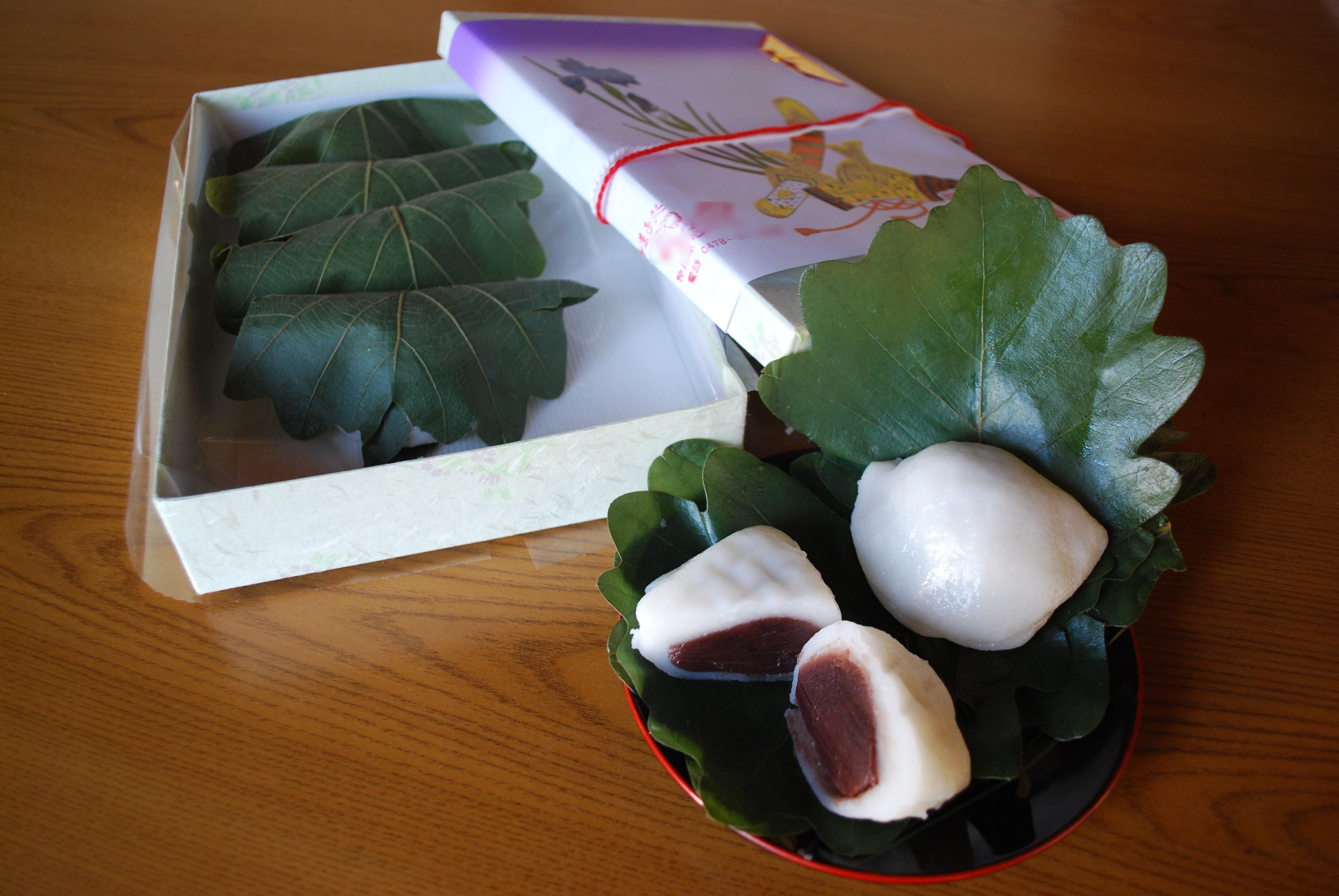 Kashiwamochi. A rice cake containing bean jam wrapped in an oak leaf which was in the box for exchanges of presents.